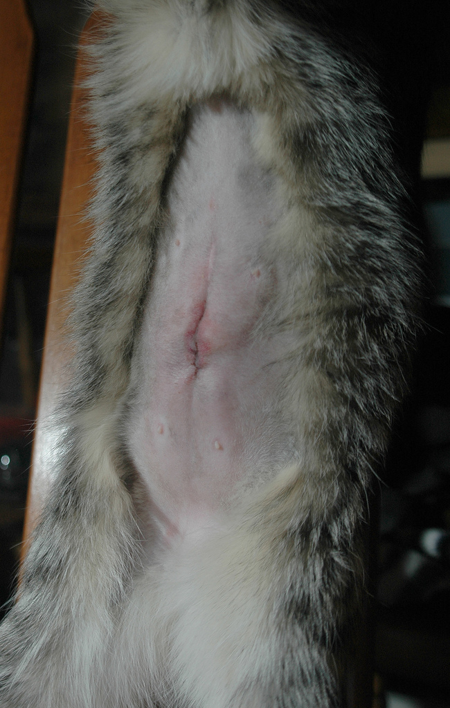 cat spay scar